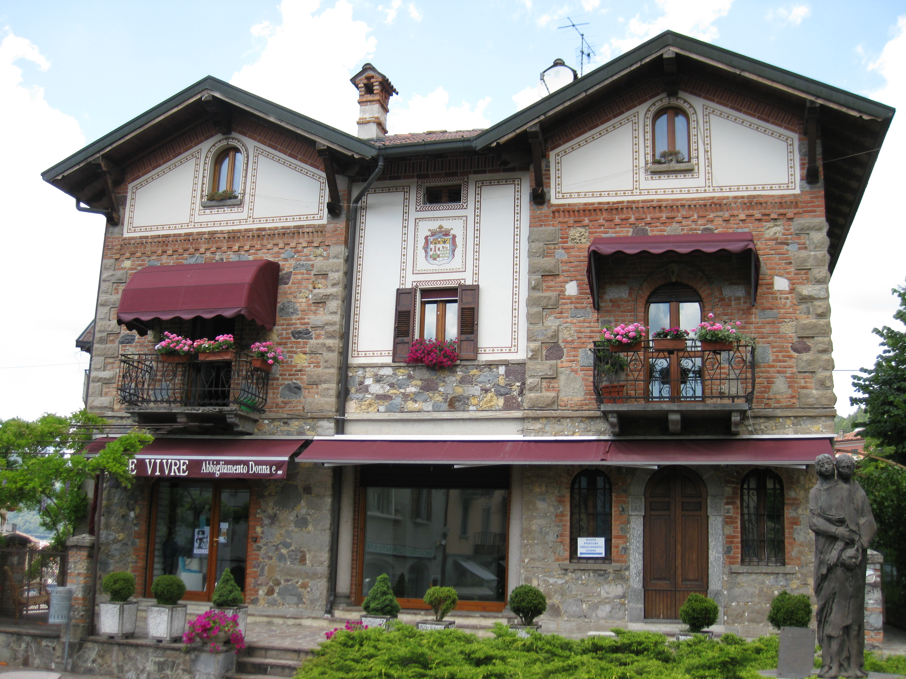 Barzio - Italy - Characteristic mountain home